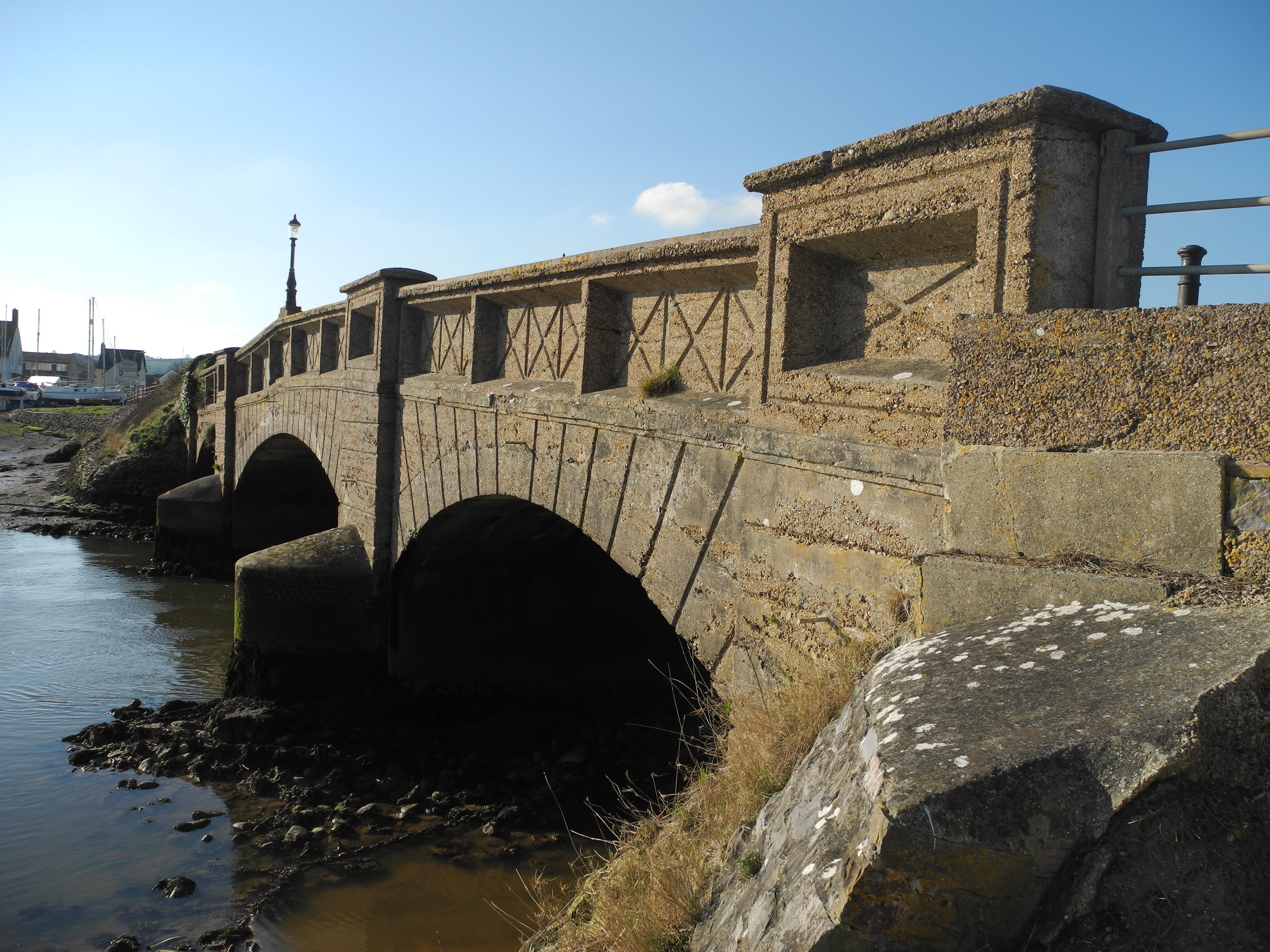 Axmouth Old Bridge, near Seaton in Devon, was designed by Philip Brannon and opened in 1877. It was the second concrete bridge to be built in Britain and is the oldest still standing.